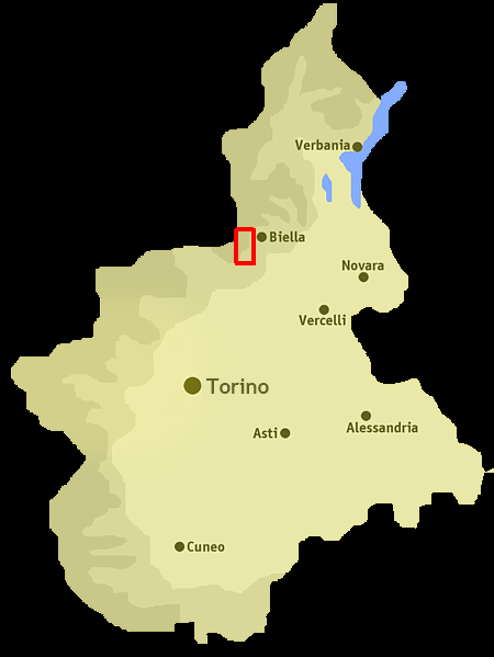 Elvo valley position within Piedmont (NW Italy)